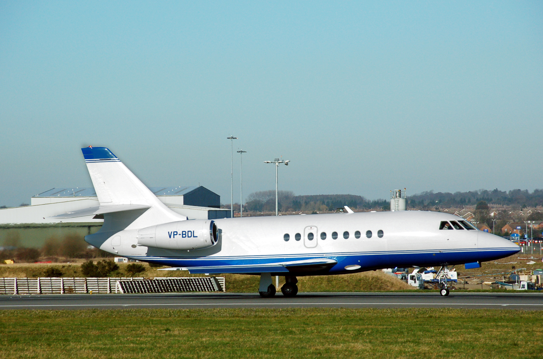 A Dassault Falcon 2000 (Bermuda registration VP-BDL) takes off from London Luton Airport, England. Operator: unknown. (The weight has just come of the nosewheel.)